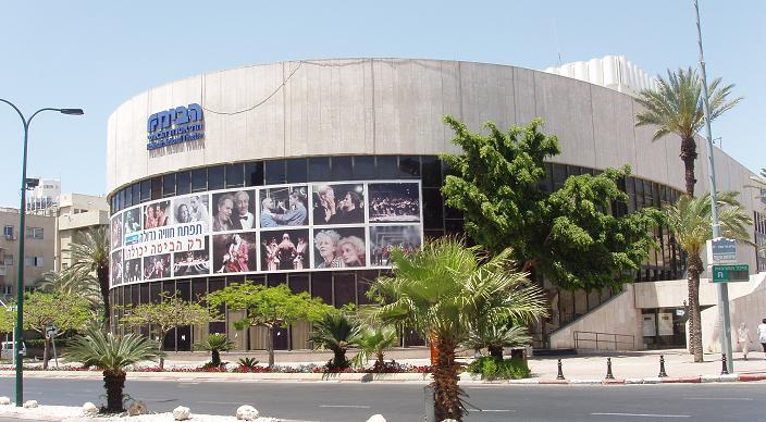 Habima Theatre